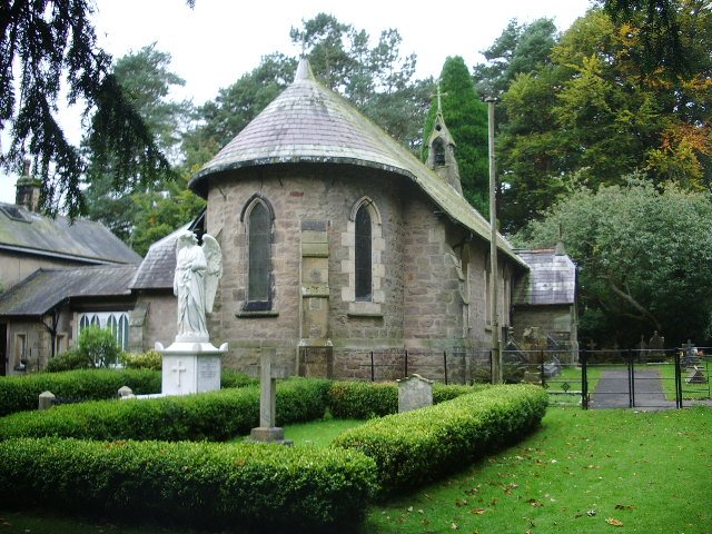 St Huberts Catholic Church, Dunsop Bridge